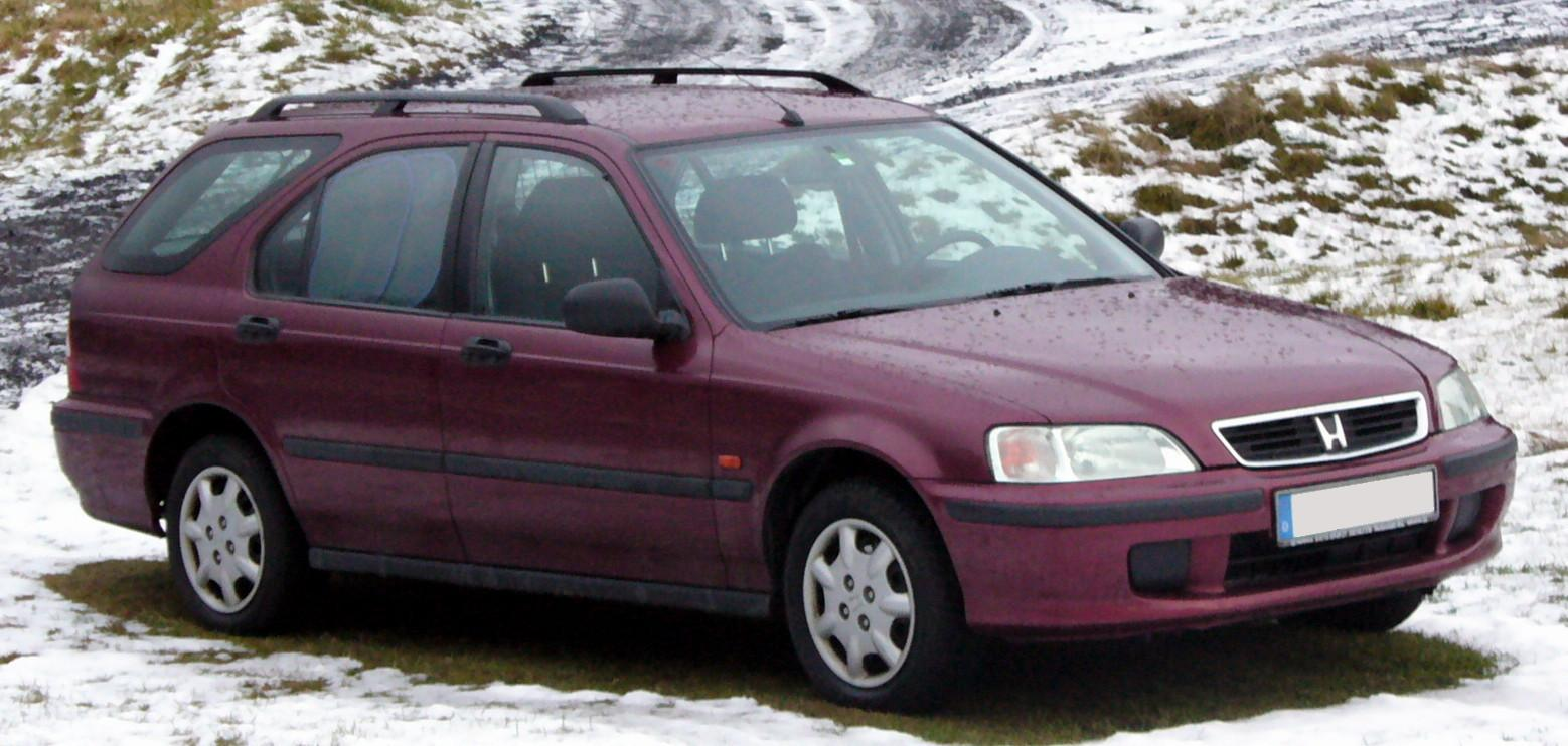 Honda Civic Aerodeck